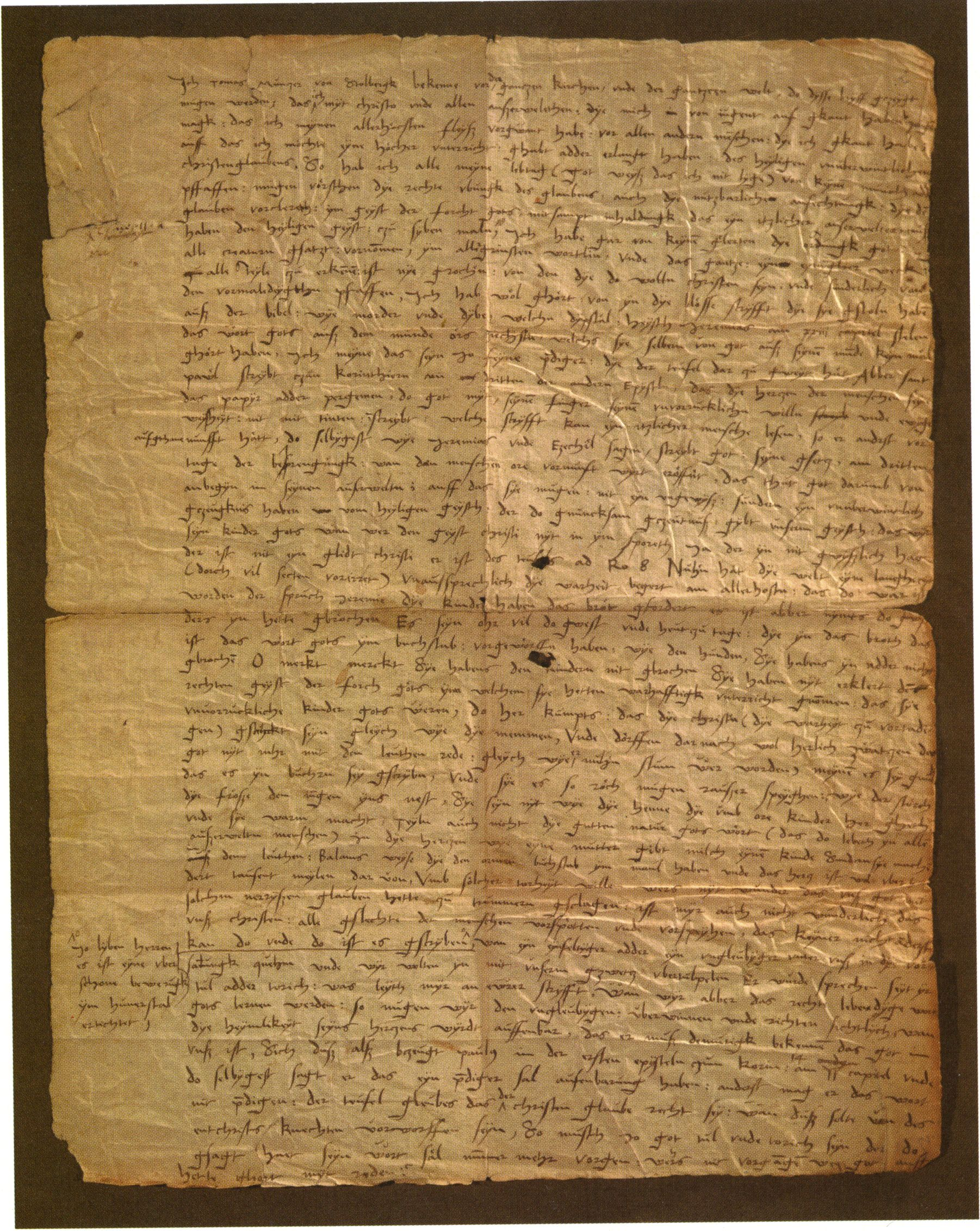 Thomas Müntzer, Prague Manifesto, autograph draft. Staatsarchiv Dresden.